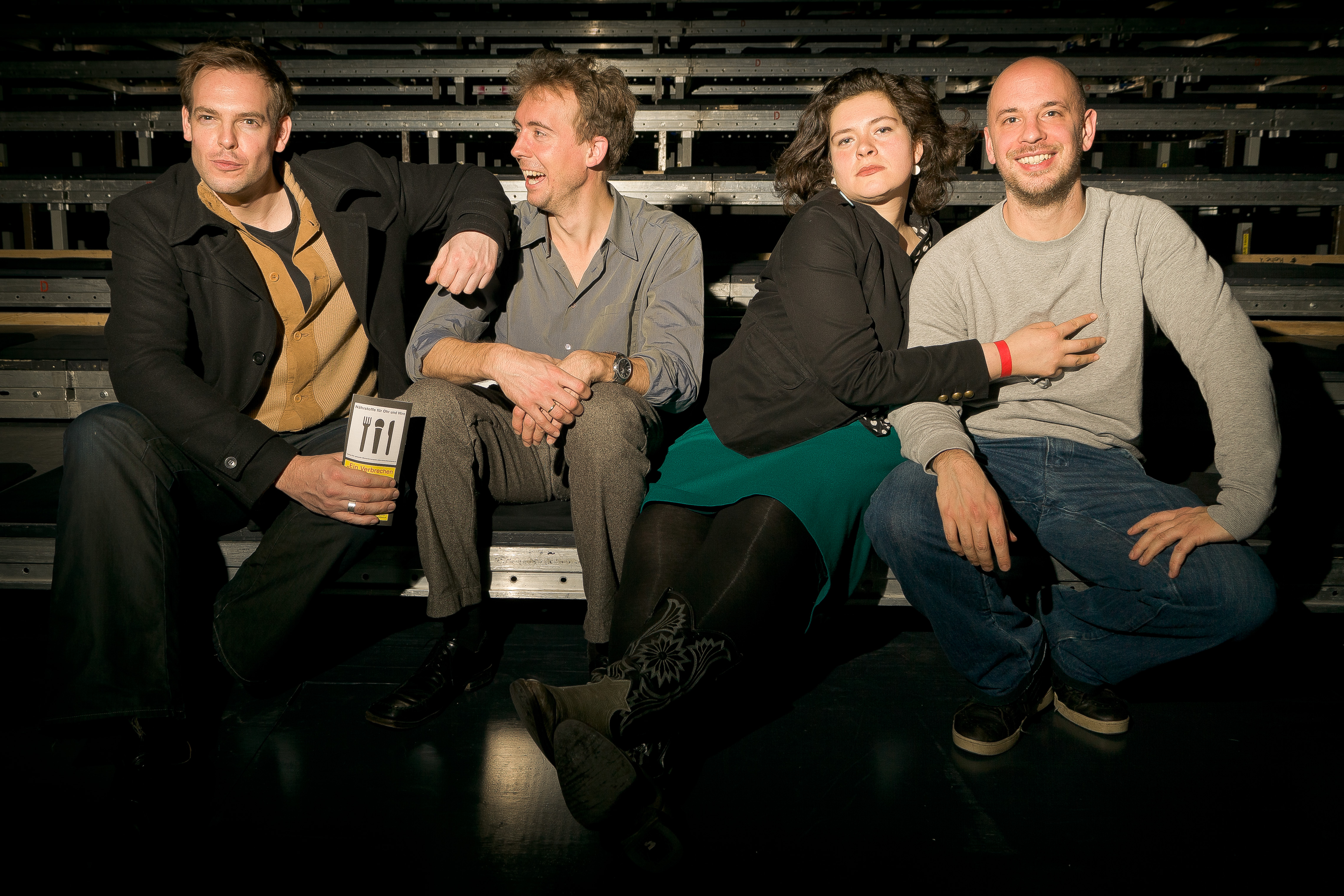 Bas Böttcher, Timo Brunke, Nora Gomringer and Dalibor Markovic at the "Poetry Slam Festival Zurich 2010"